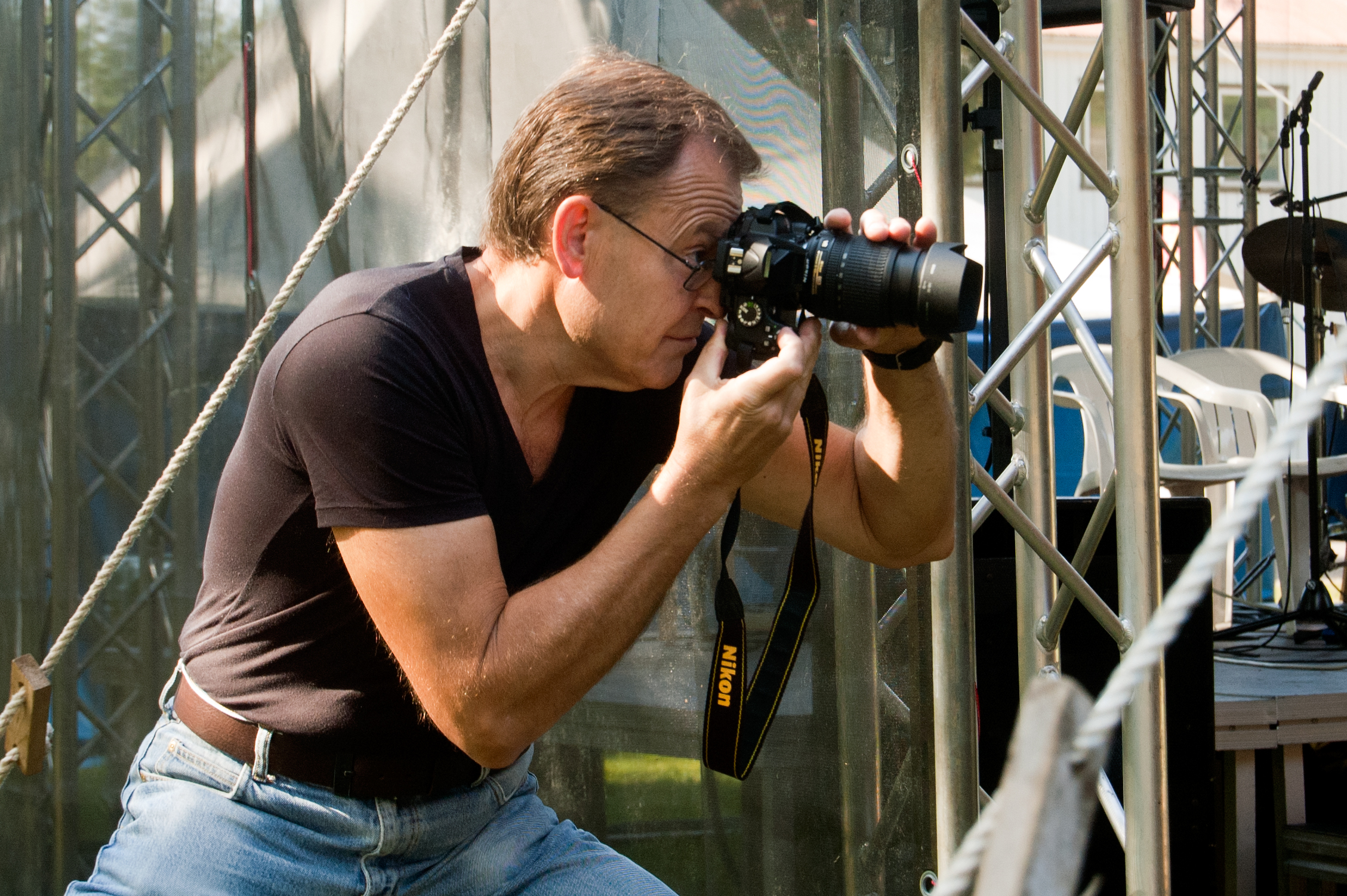 Lars Rothelius at the communist paper Proletären taking pictures at the communist summercamp 2011.